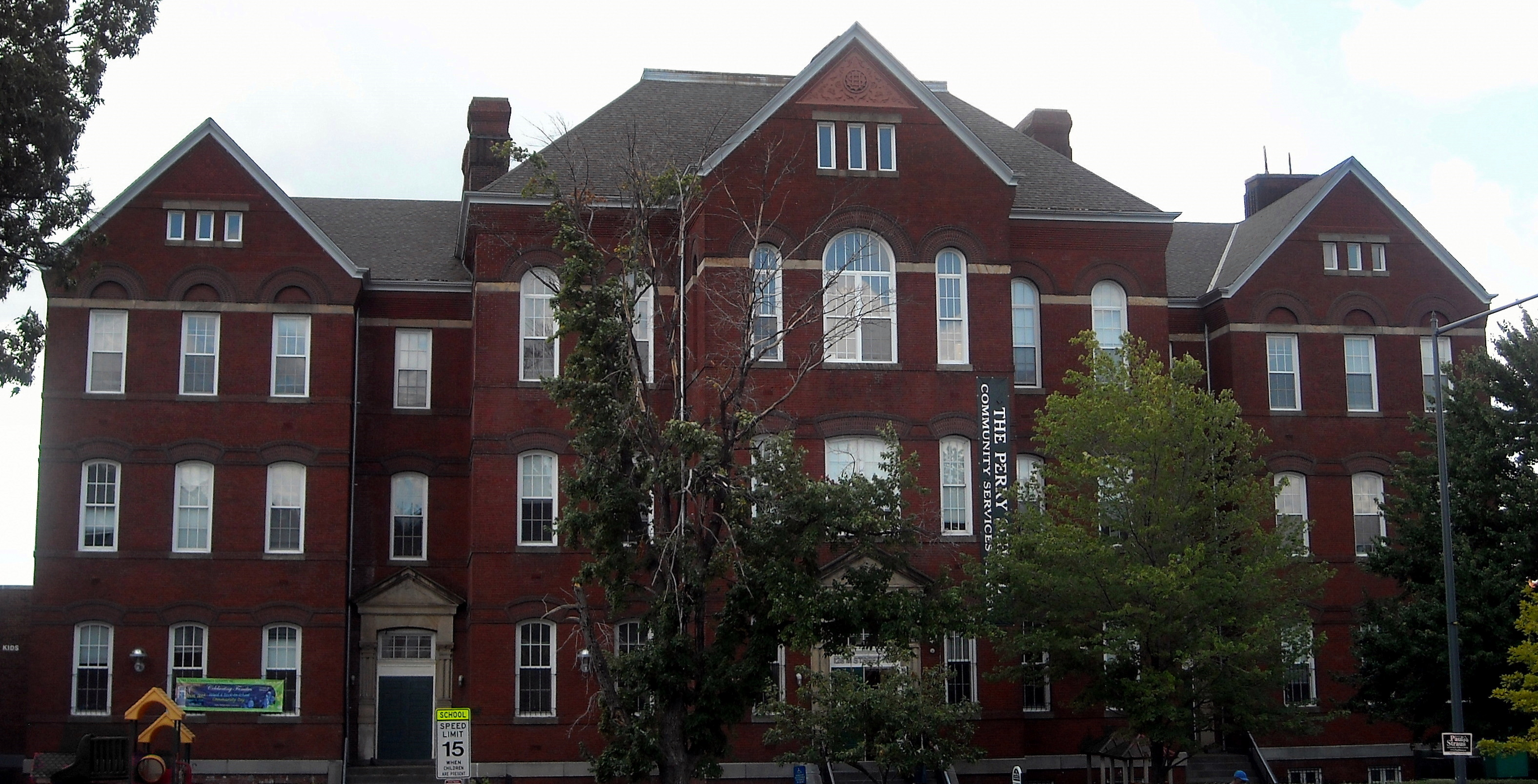 The M Street High School (also known as the Perry School) located at 128 M Street, NW in the Truxton Circle neighborhood of Washington, D.C. Designed by the Office of the Building Inspector in 1890, the Romanesque building was home to one of the country's first public high schools for African-American students (founded in 1870 as the Preparatory High School for Negro Youth). On October 23, 1986 M Street High School was added to the National Register of Historic Places.